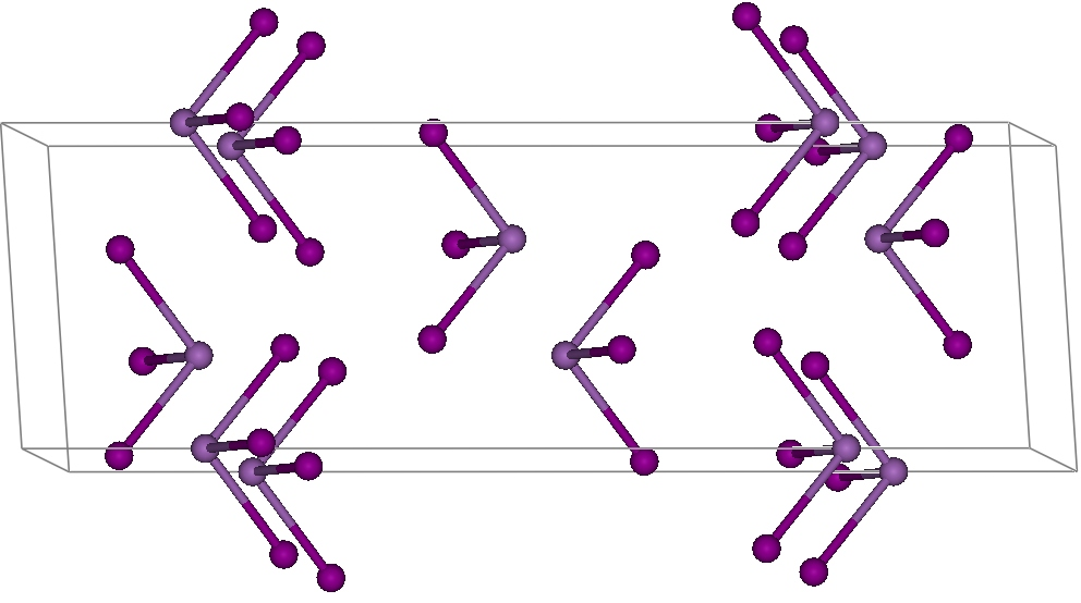 SbI3 structure Journal = ZEITSCHRIFT FUER KRISTALLOGRAPHIE, KRISTALLGEOMETRIE, KRISTALLPHYSIK, KRISTALLCHEMIE, Year = 1966, Volume = 123, Page = 67–72, Title = The crystal structure of SbI3 and BiI3, Authors = Trotter J., Zobel T.